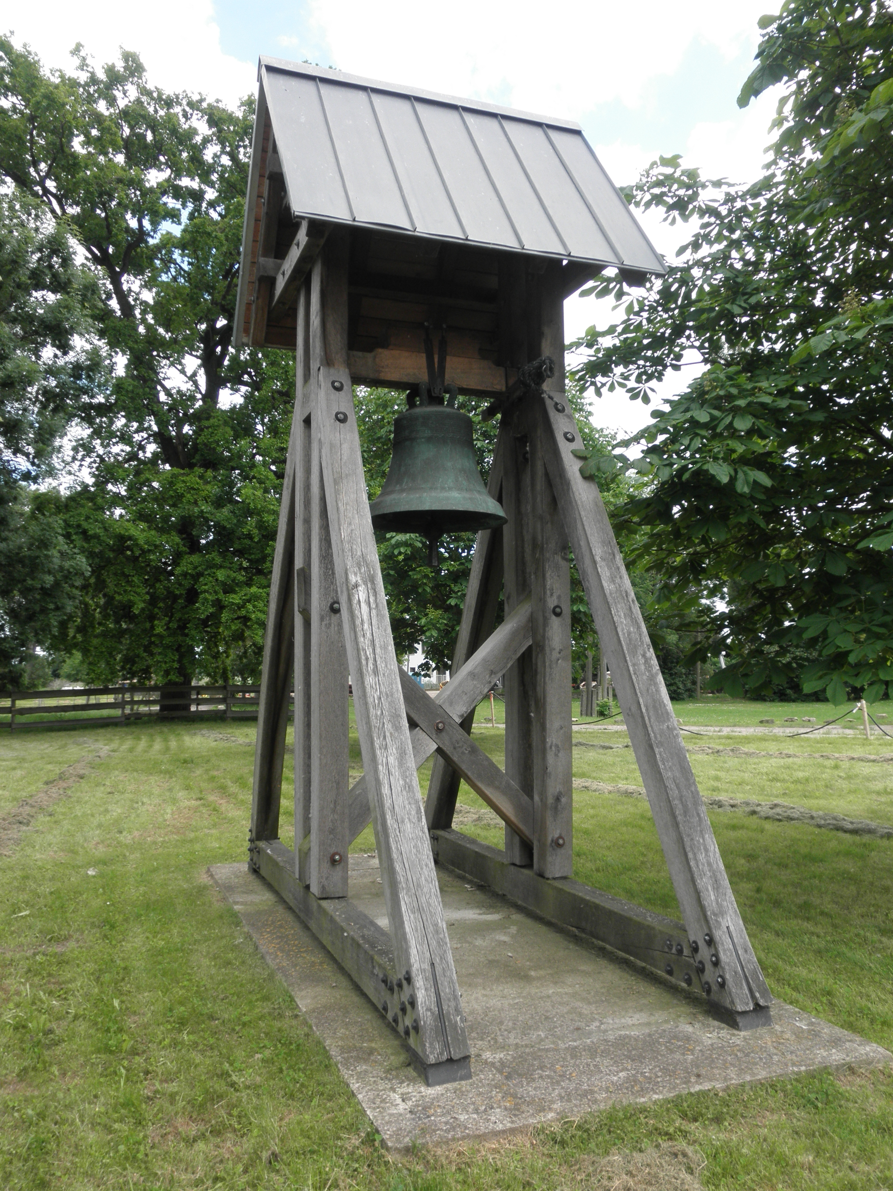 Bell of the Church in Vehra, which was destroyd in the 1970th